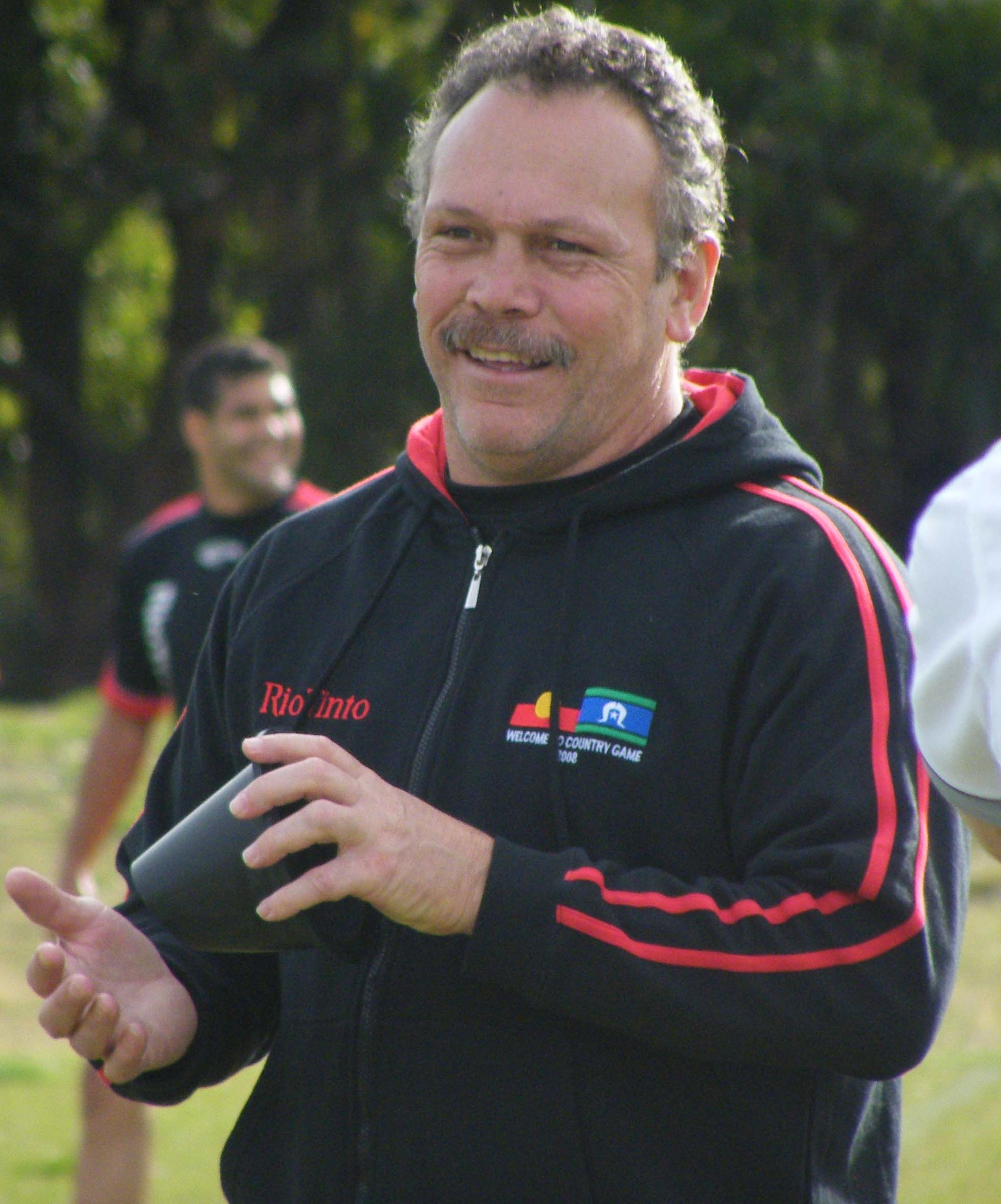 Training Session - Aboriginal Dreamtime Team - RLWC 2008